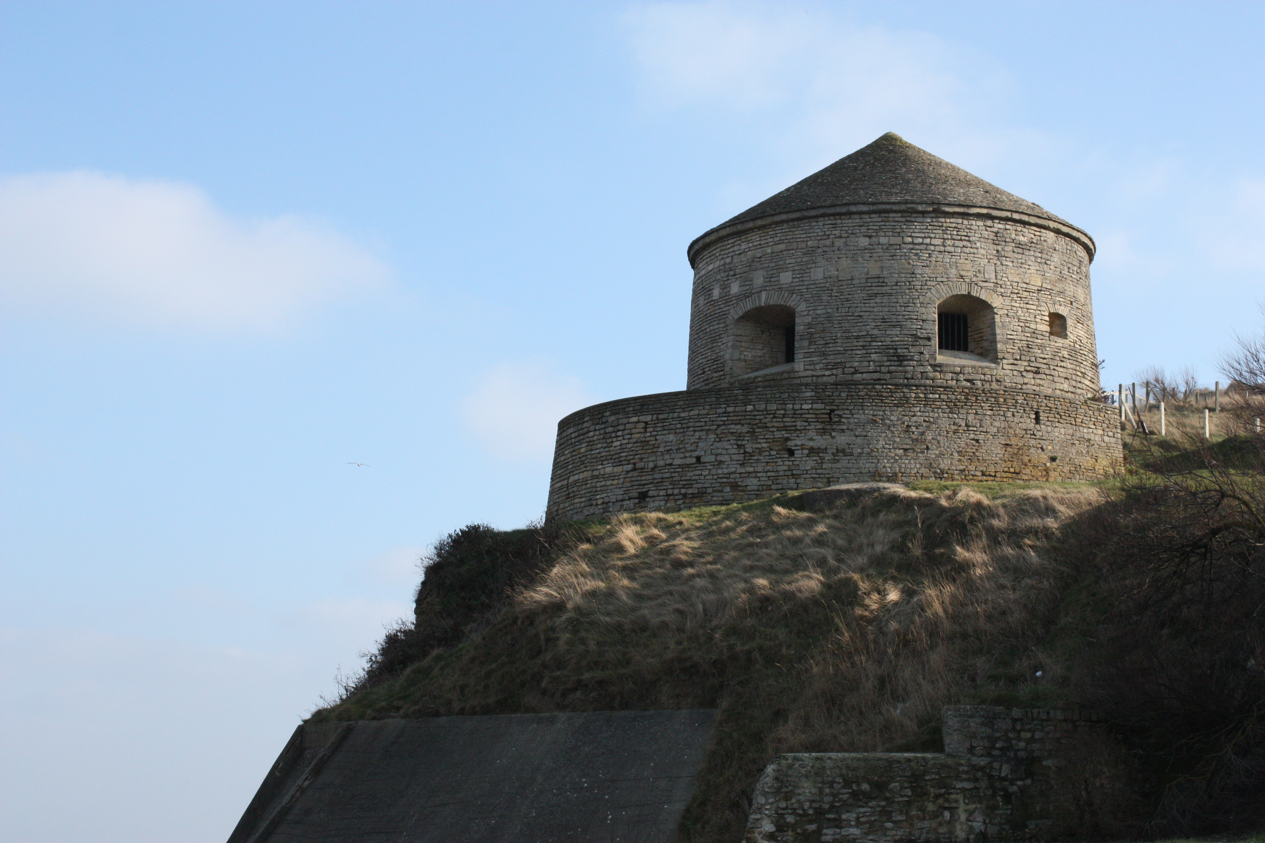 Vauban tower watching the port of Port-en-Bessin-Huppain.